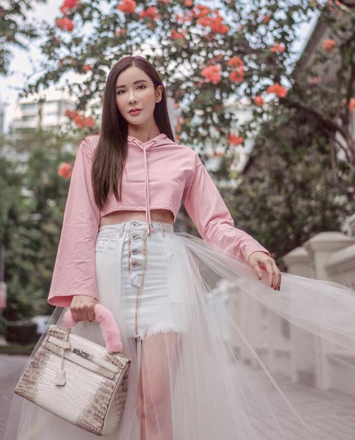 Jamie Chua